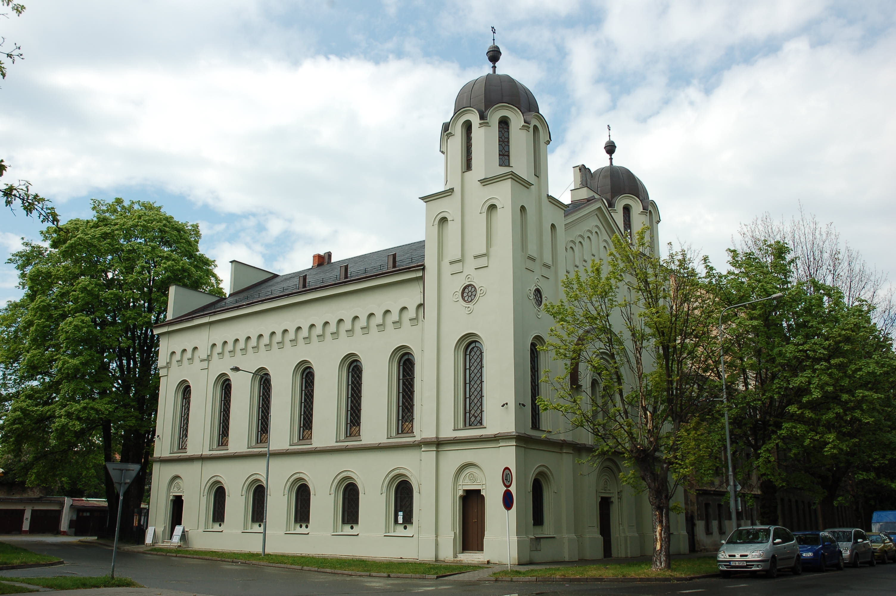 Synagogoue in Krnov